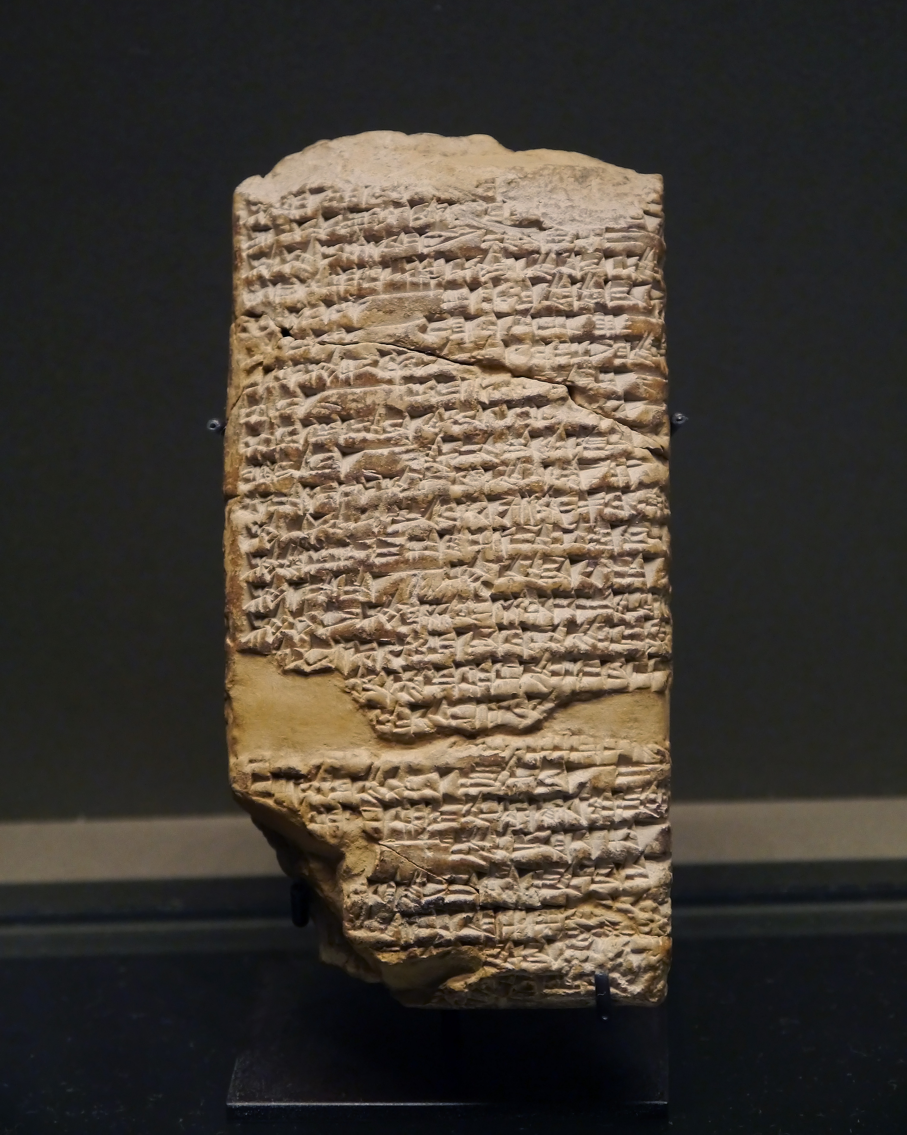 Sumerian cosmogonic myth. Clay, end of 3rd millenium BC. From Irak, ancient Mesopotamia.